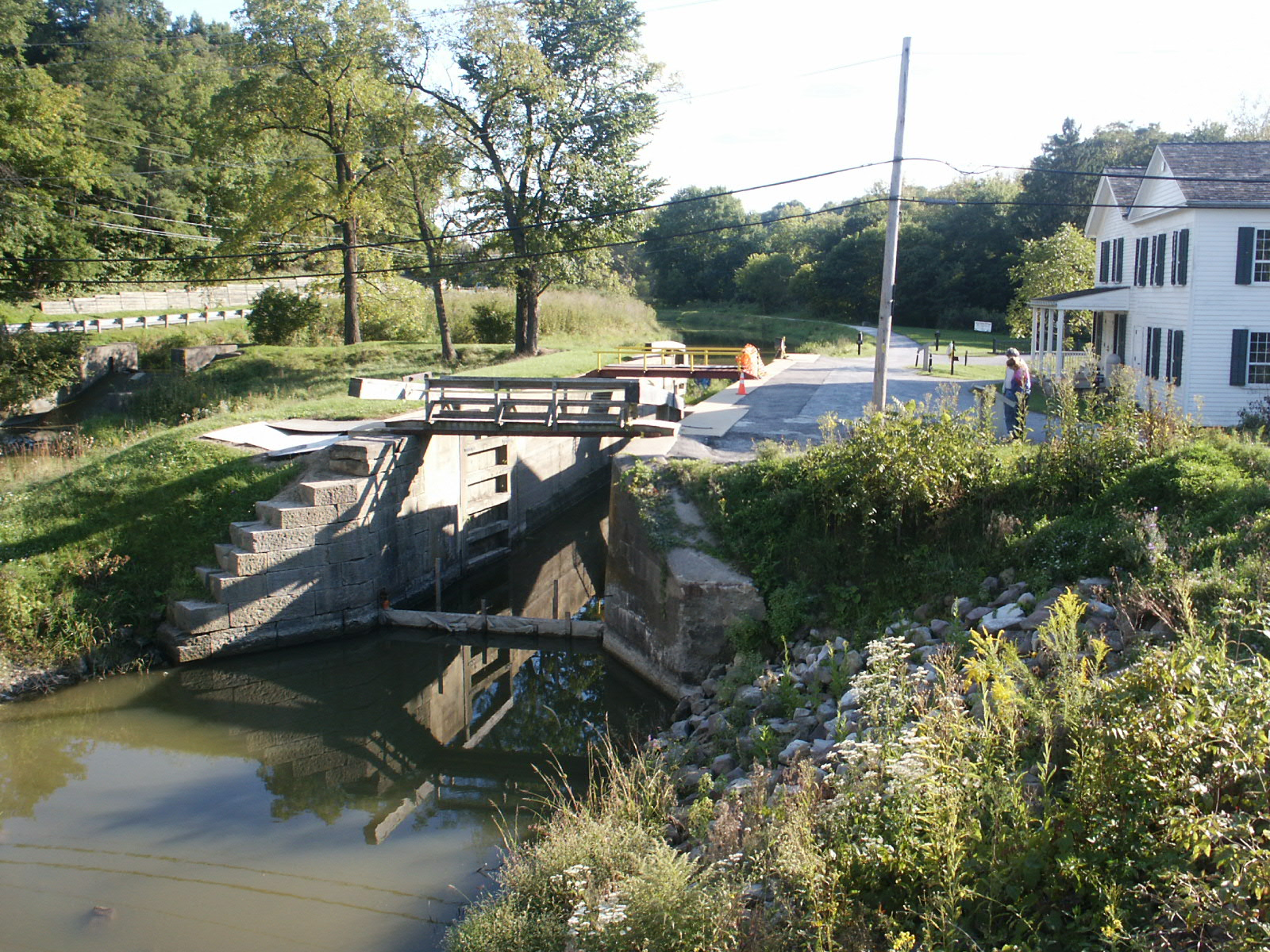 Restored Lock & tavern house